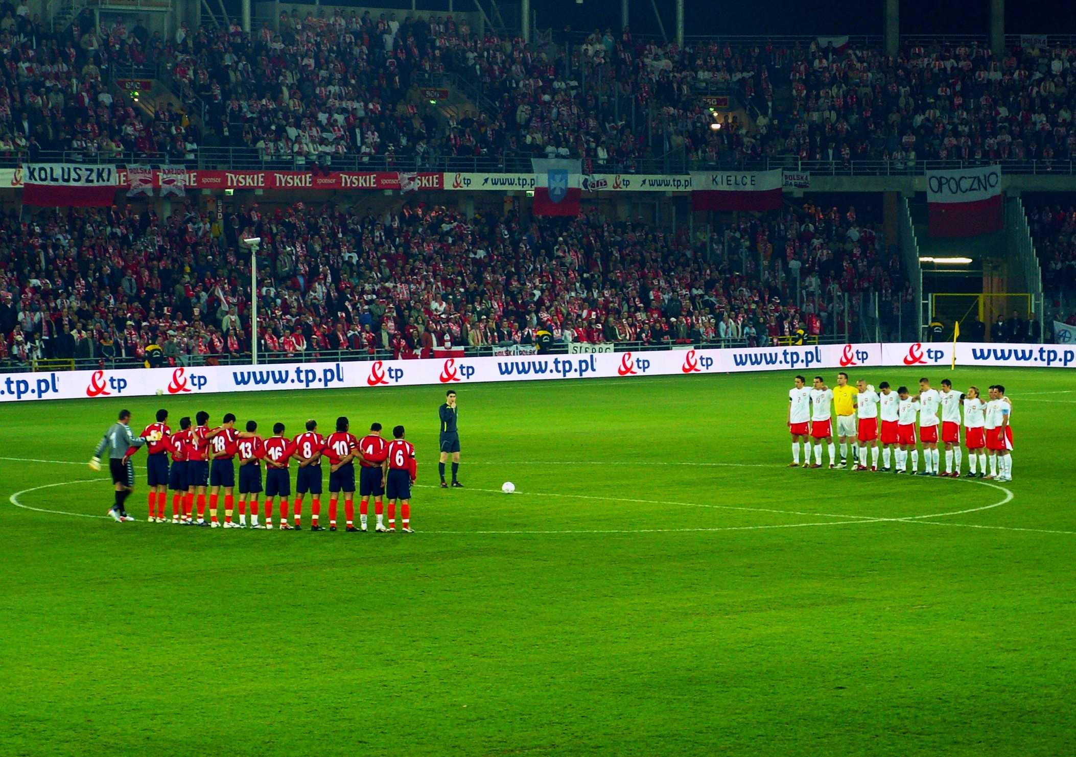 UEFA Euro 2008 qualifying - Poland vs Armenia in Kielce (Poland)